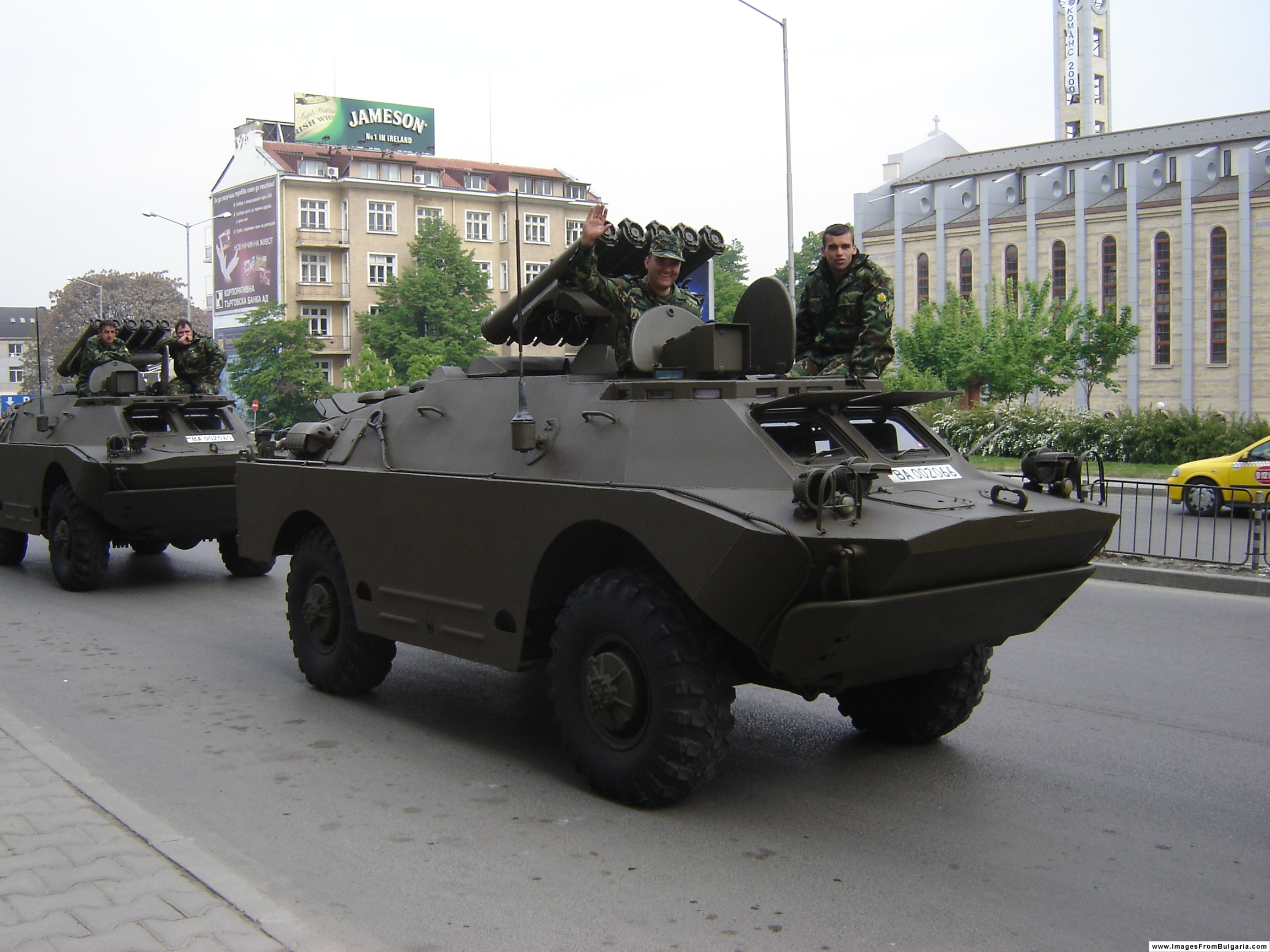 Two BRDM-2-based anti-tank vehicles of the Bulgarian army, 2006 Army day parade preparations.